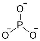 The phosphite ion